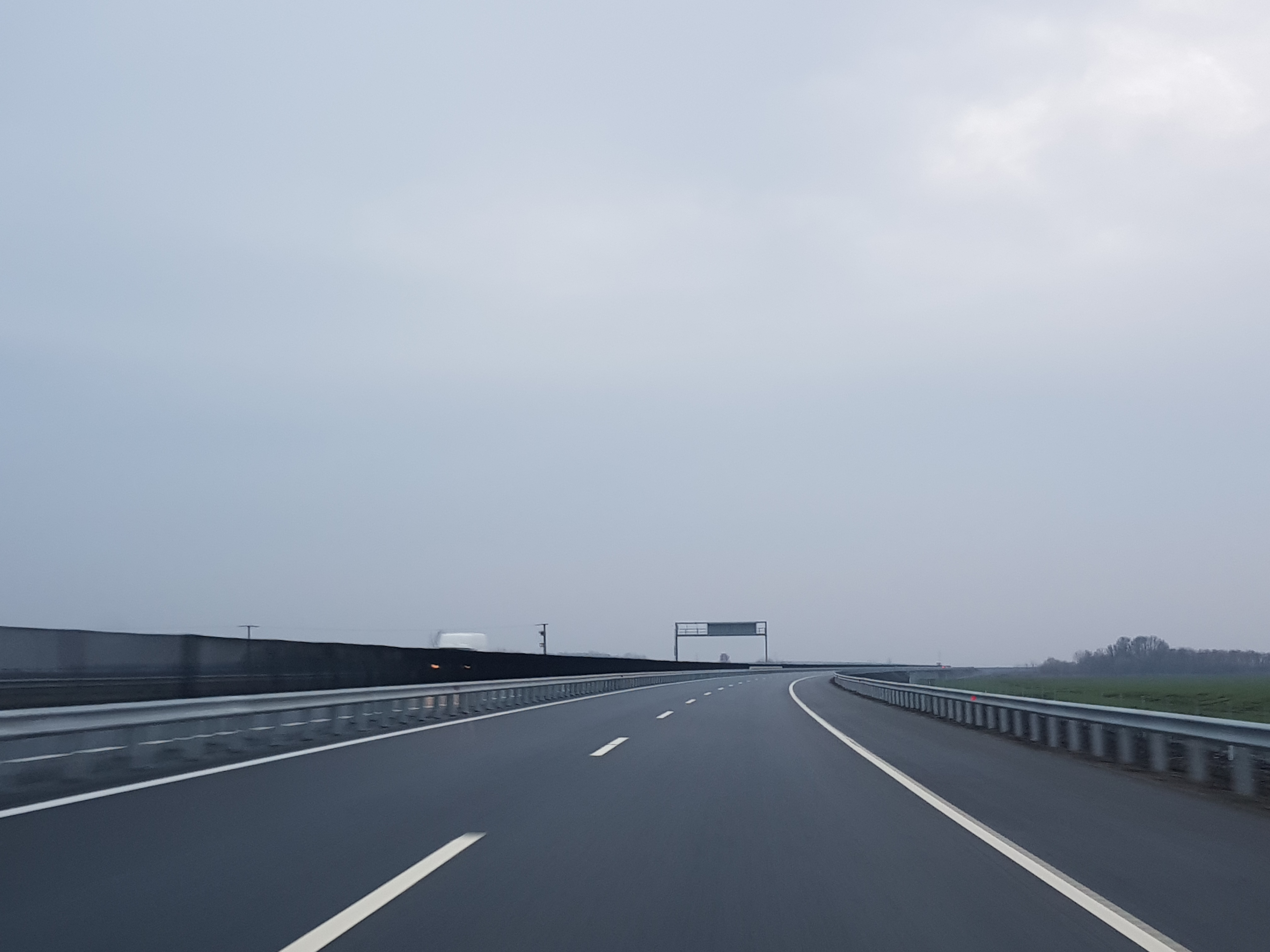 Motorway M35 in Hungary between Debrecen and Berettyóújfalu, near Derecske